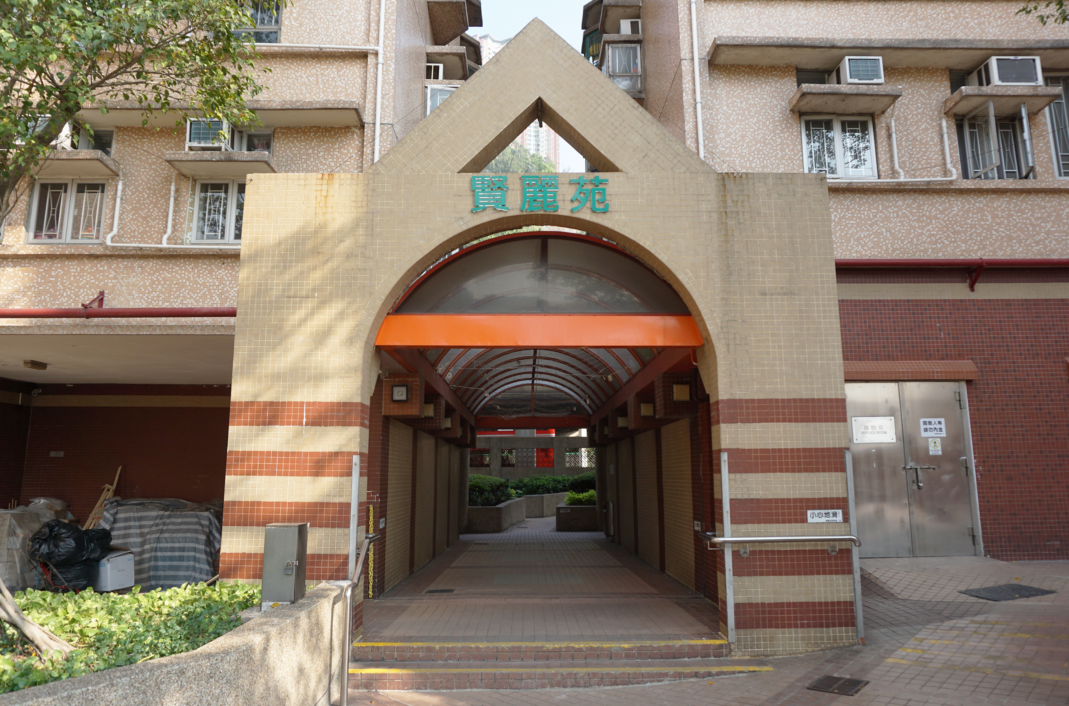 Yin Lai Court in Lai King, Hong Kong.